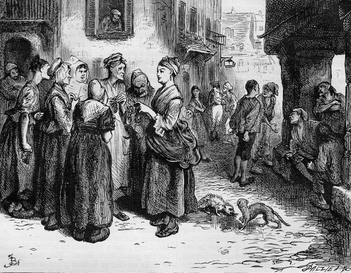 A Tale of Two Cities, Faubourg Saint-Antoine in Paris, by Fred Barnard.